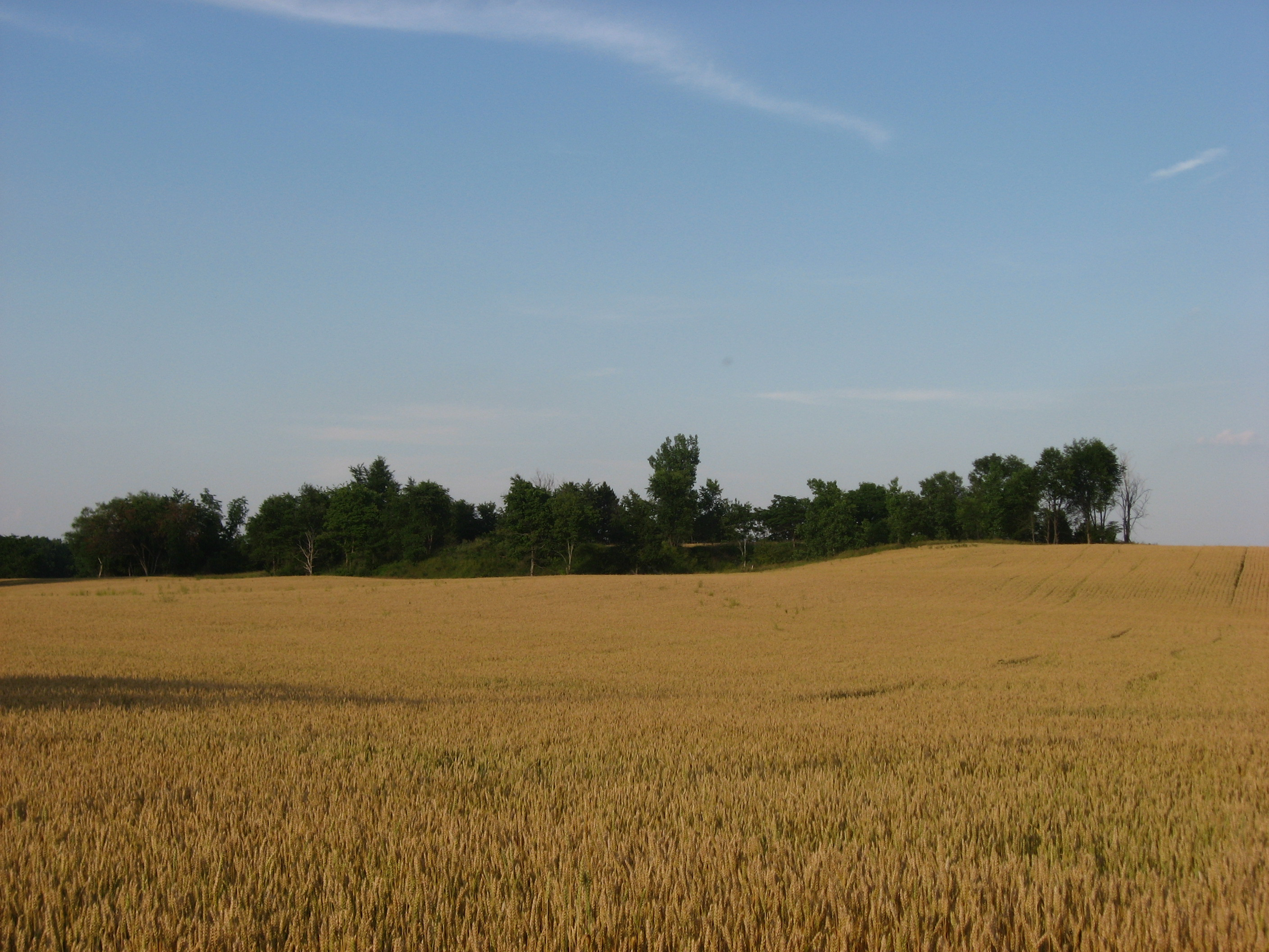 Western side of the Zimmerman Kame, located on the eastern side of Township Road 39 northeast of Roundhead in far western McDonald Township, Hardin County, Ohio, United States. A glacial kame that was quarried until the 1970s, it was a burial site for ancient Native Americans and is listed on the National Register of Historic Places.